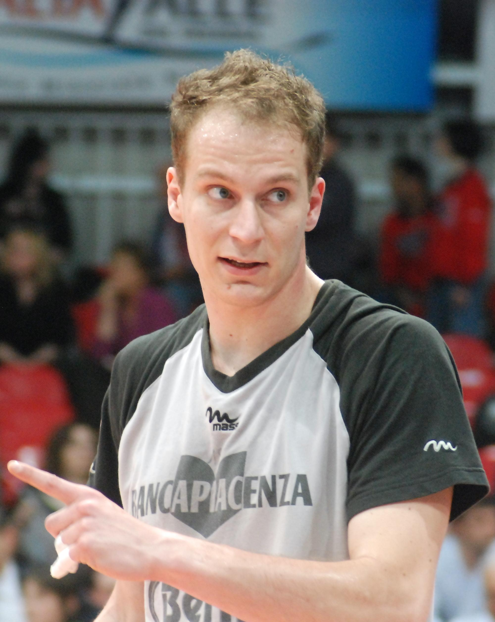 picture taken during the season 2008-2009